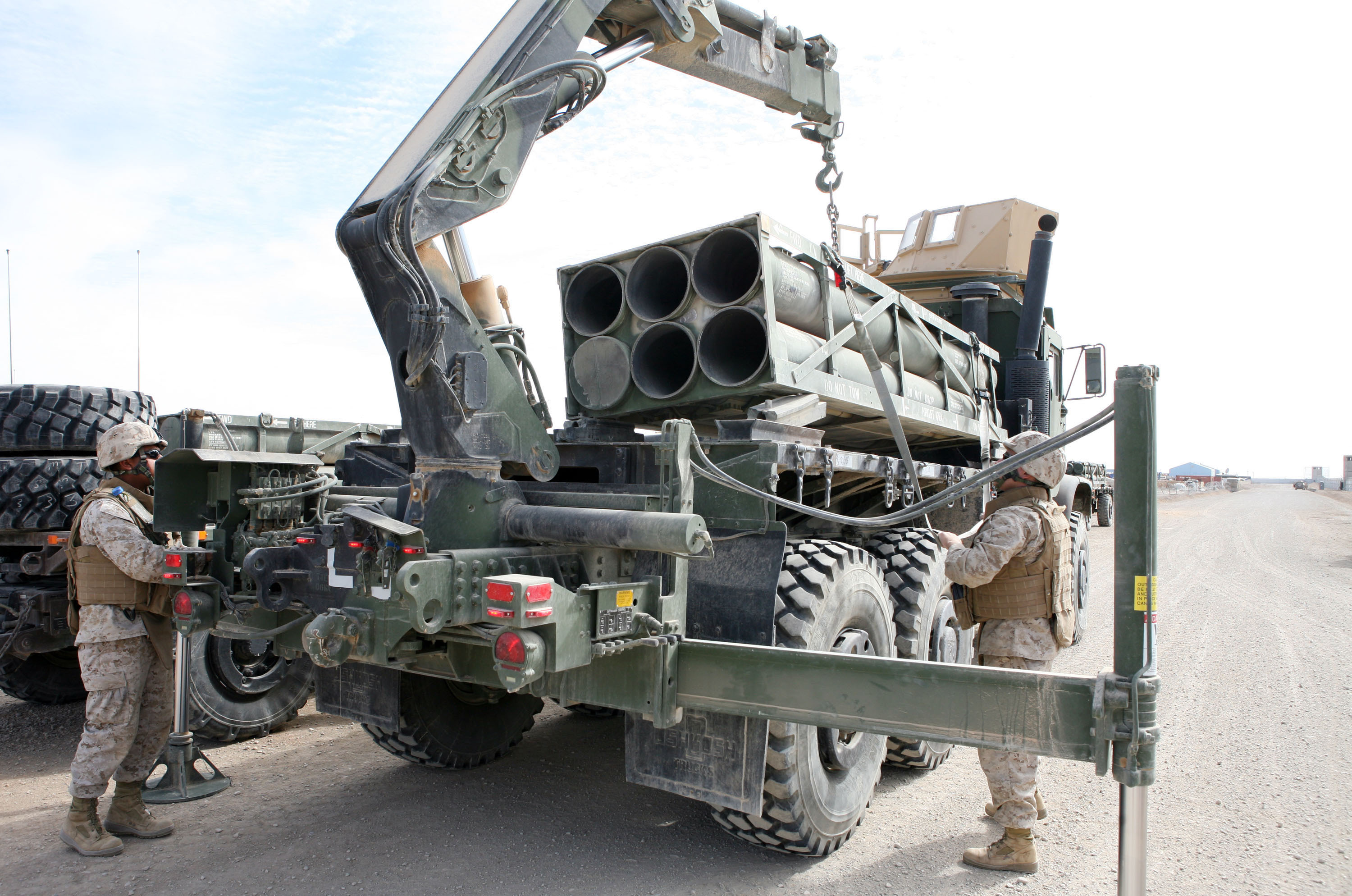 Lance Cpl. Alex L. Herrera (right) steadies a rocket pod as Lance Cpl. Rogelio A. Saenz lowers the pod with a crane while transferring the unit from one truck to another before a High Mobility Artillery Rocket System test-fire at Camp Barber, Islamic Republic of Afghanistan, Feb. 15. The HIMARS is a mobile rocket system used by Battery D, 2nd Battalion, 14th Marine Regiment, a reserve battery based in El Paso, Texas. The battery is here to support Special Purpose Marine Air Ground Task Force - Afghanistan as a fire support asset. SPMAGTF-A's mission is to conduct counterinsurgency operations, and train and mentor the Afghan national police while setting the conditions for the Afghan security forces to grow, gain effectiveness and succeed against the enemy.Herrera and Saenz are motor transport operators assigned to Btry. D's first platoon.